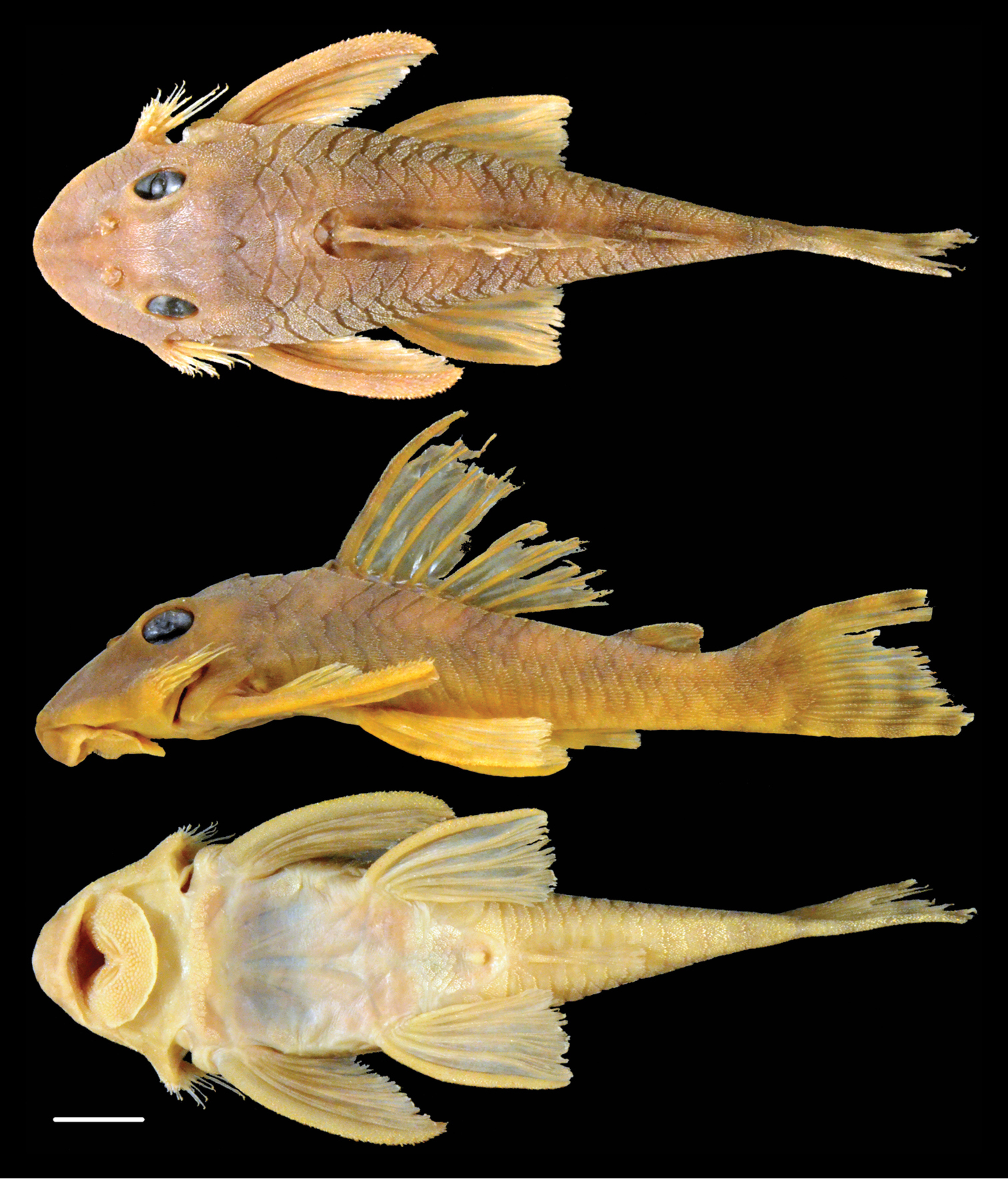 Dorsal, lateral, and ventral views of holotype of Peckoltia greedoi MCP 21972, 77.8 mm SL.